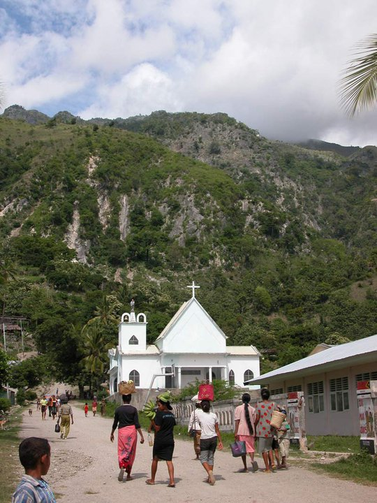 Igreja baguia